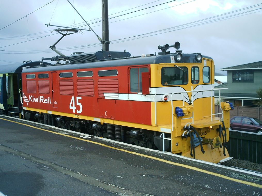 Photo of an NZR EA Class locomotive in Wellington, New Zealand